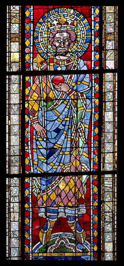 Gothic stained glass depiction of Louis II, Holy Roman Emperor; Cathedral of Our Lady of Strasbourg, France